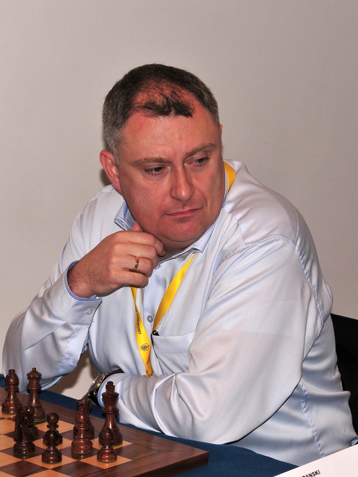 GM Jacek Gdański, European Chess Team Championship Warsaw 2013